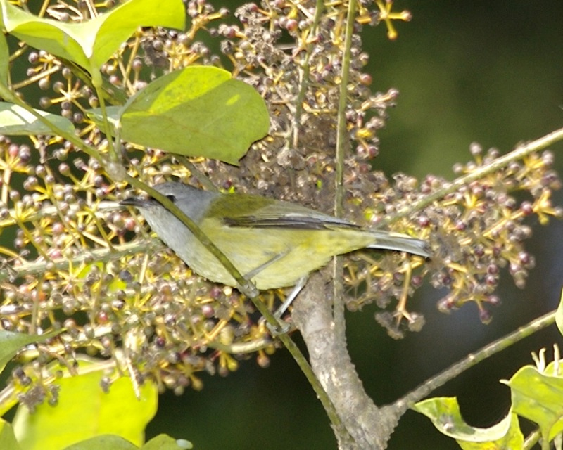 Javan Grey-throated White-eye Lophozosterops javanicus frontalis Cibodas, Java, Indonesia 27th. August 2006 Indonesian names: Burung kaca mata leher abu-abu, Opior-opior